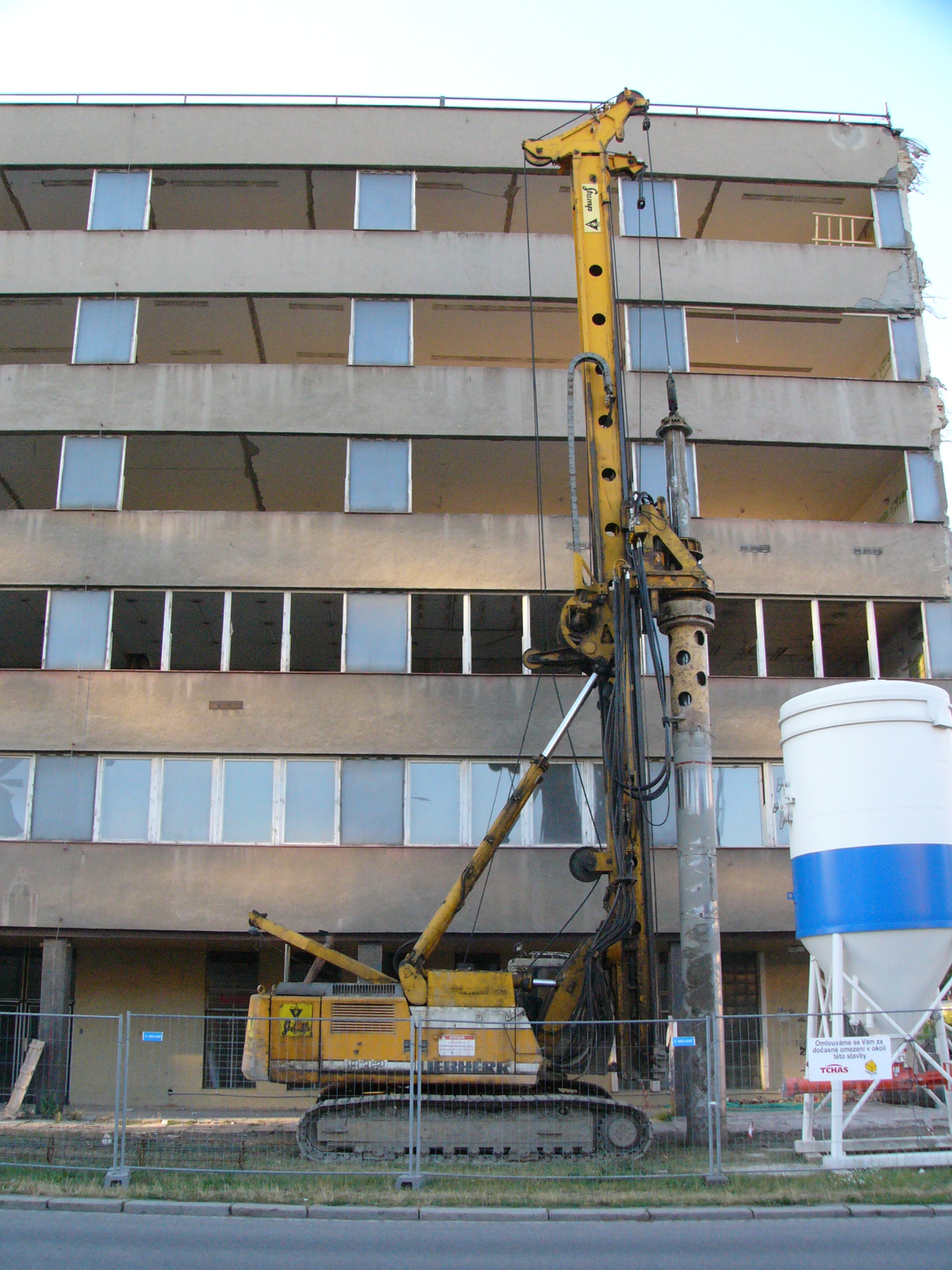 Pile driver in Olomouc (Czech Republic).